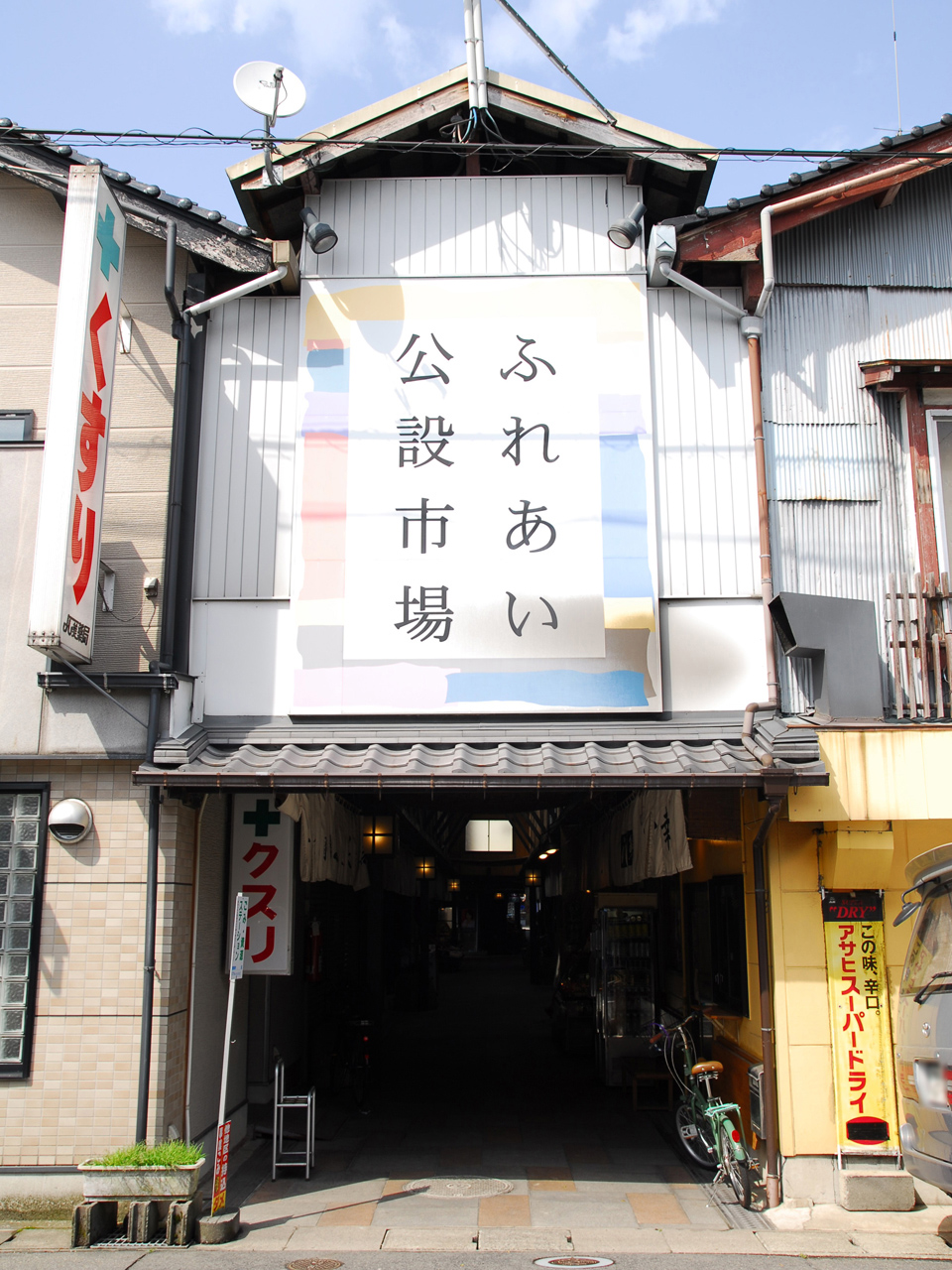 Fureai Kosetsu Ichiba in Toyooka, Hyogo Prefecture, Japan.